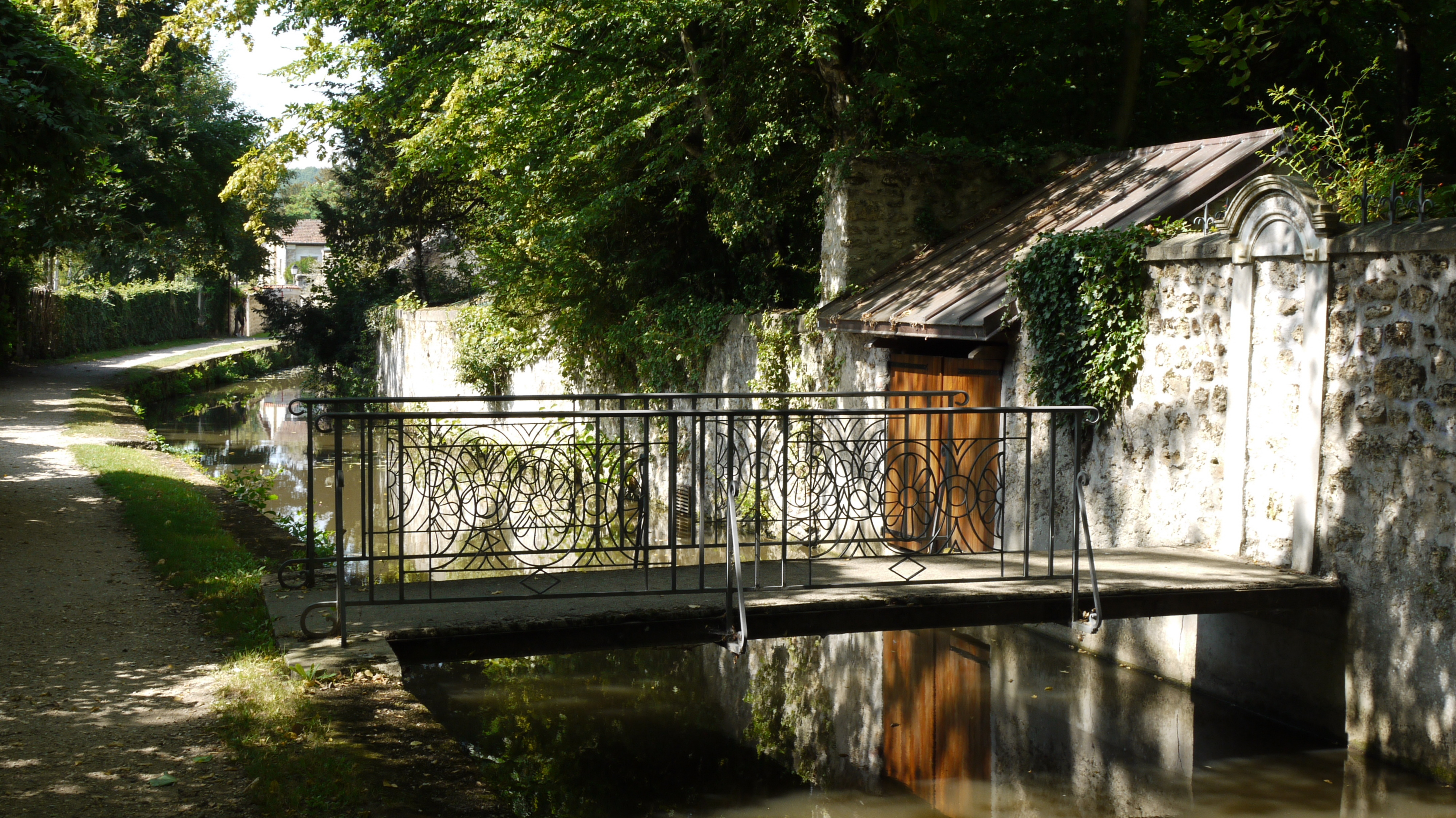 Chevreuse, Ile de France